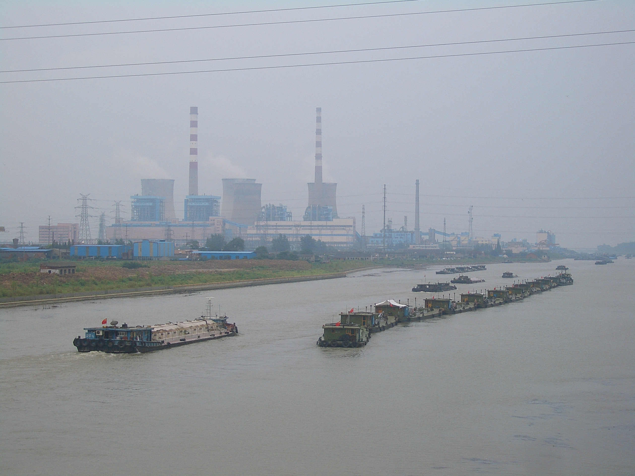 A caravan of barge going north along the modern route of the Grand Canal of China on the eastern outskirts of Yangzhou.